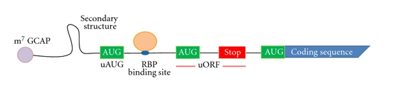 This image depicts the general structure of a mRNA molecule